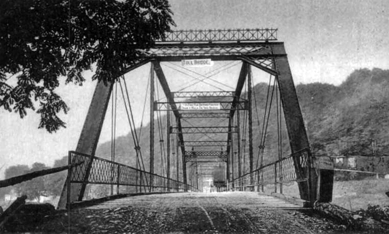 Old Cochecton–Damascus Bridge, seen from Cochecton, NY, USA side of Delaware River